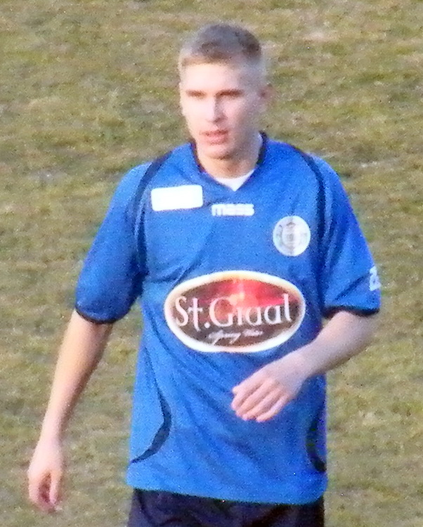 Daniils Turkovs Latvian association football player.